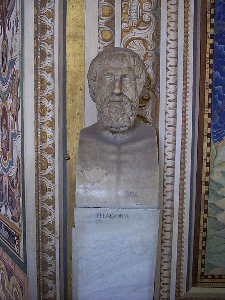 Bust of Pythagoras at the Vatican Museum, Vatican City